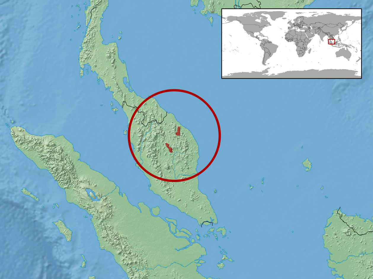 geographic distribution of Pseudocalotes dringi (Native: Malaysia (Peninsular Malaysia))